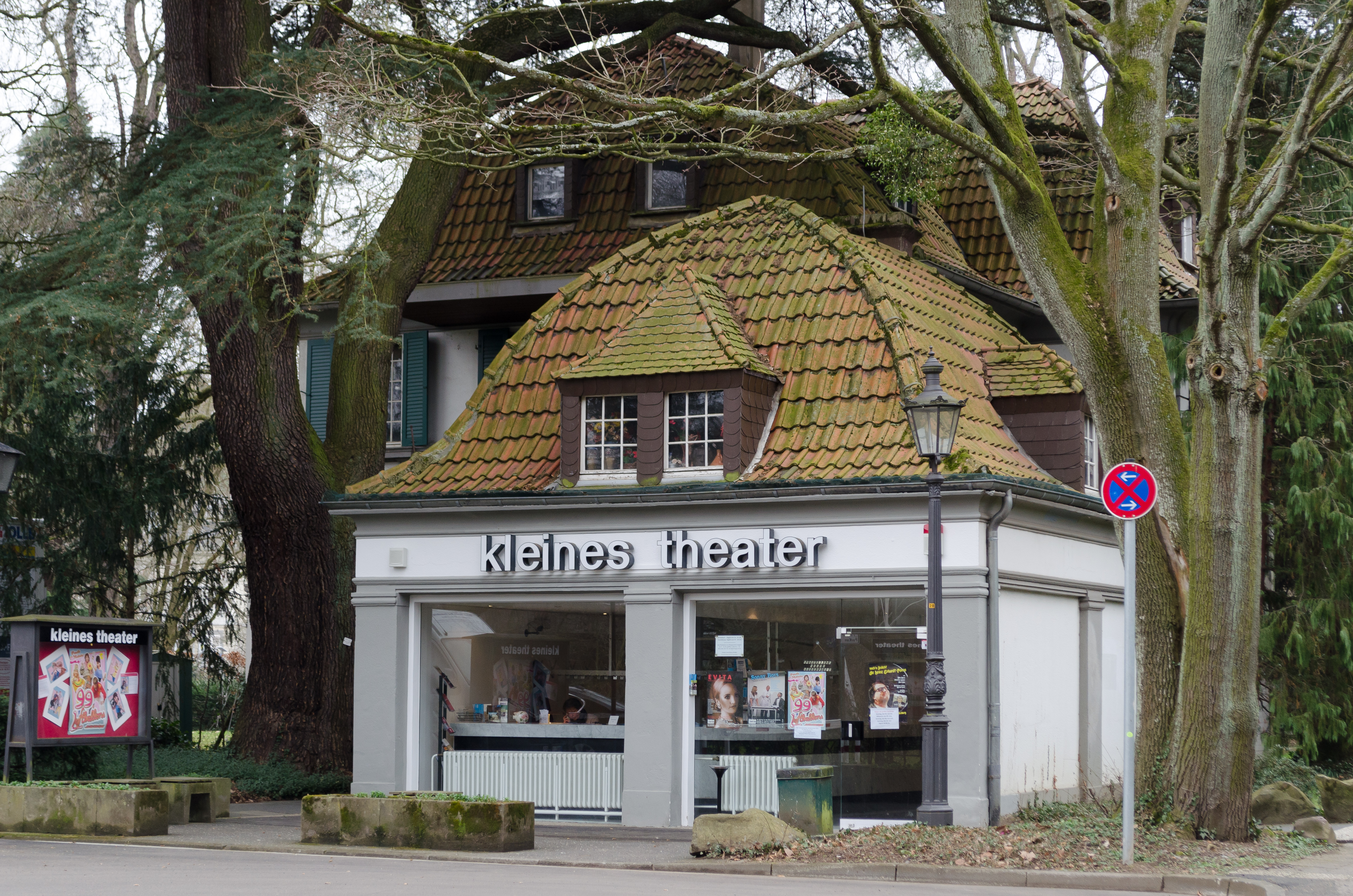 Cultural heritage monument in Bad Godesberg